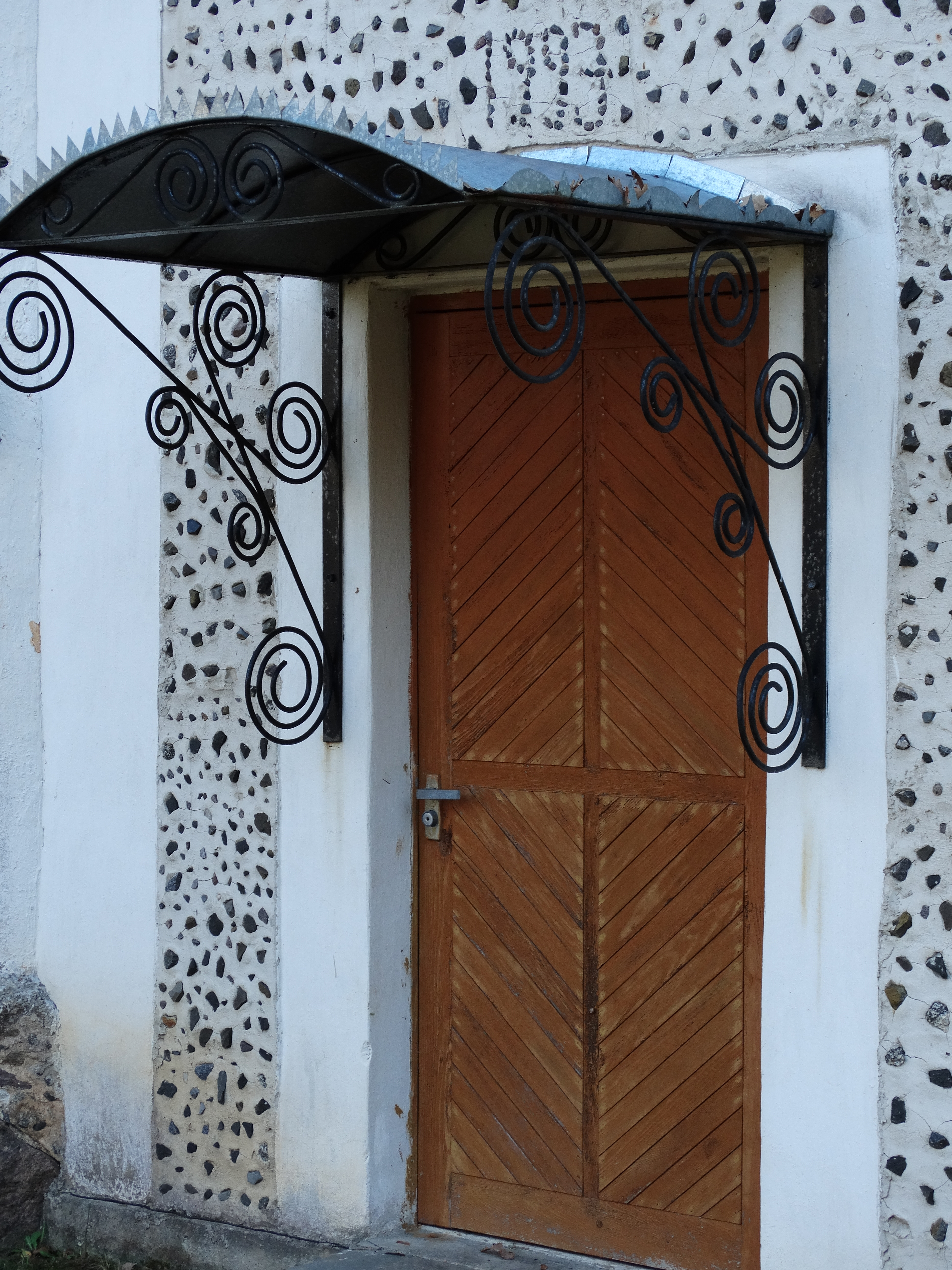 Doors, chapel in Tiltagaliai, Panevėžys district, Lithuania